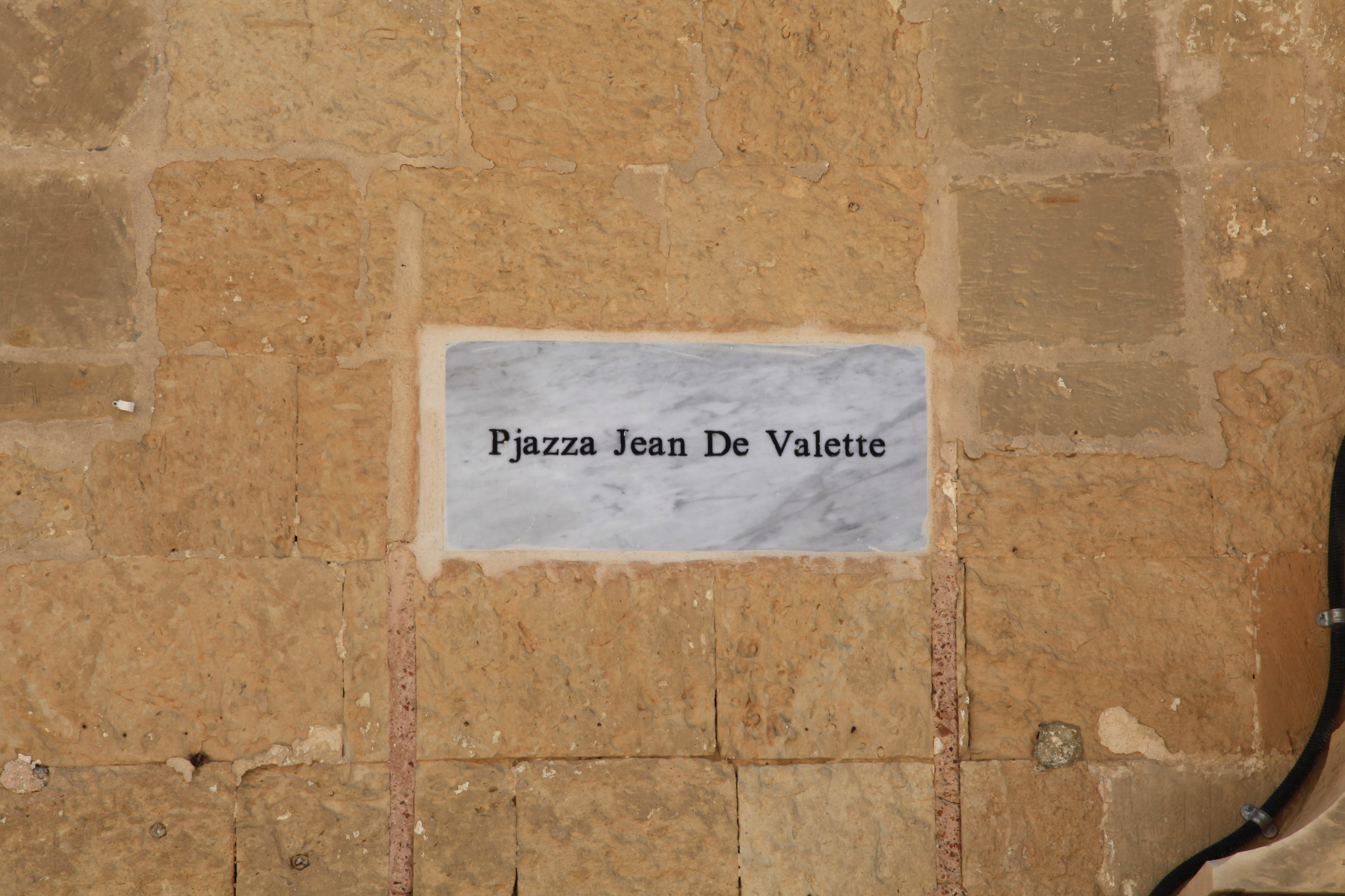 Pjazza Jean de Valette, Triq Nofs-in-Nhar in Valletta, Malta